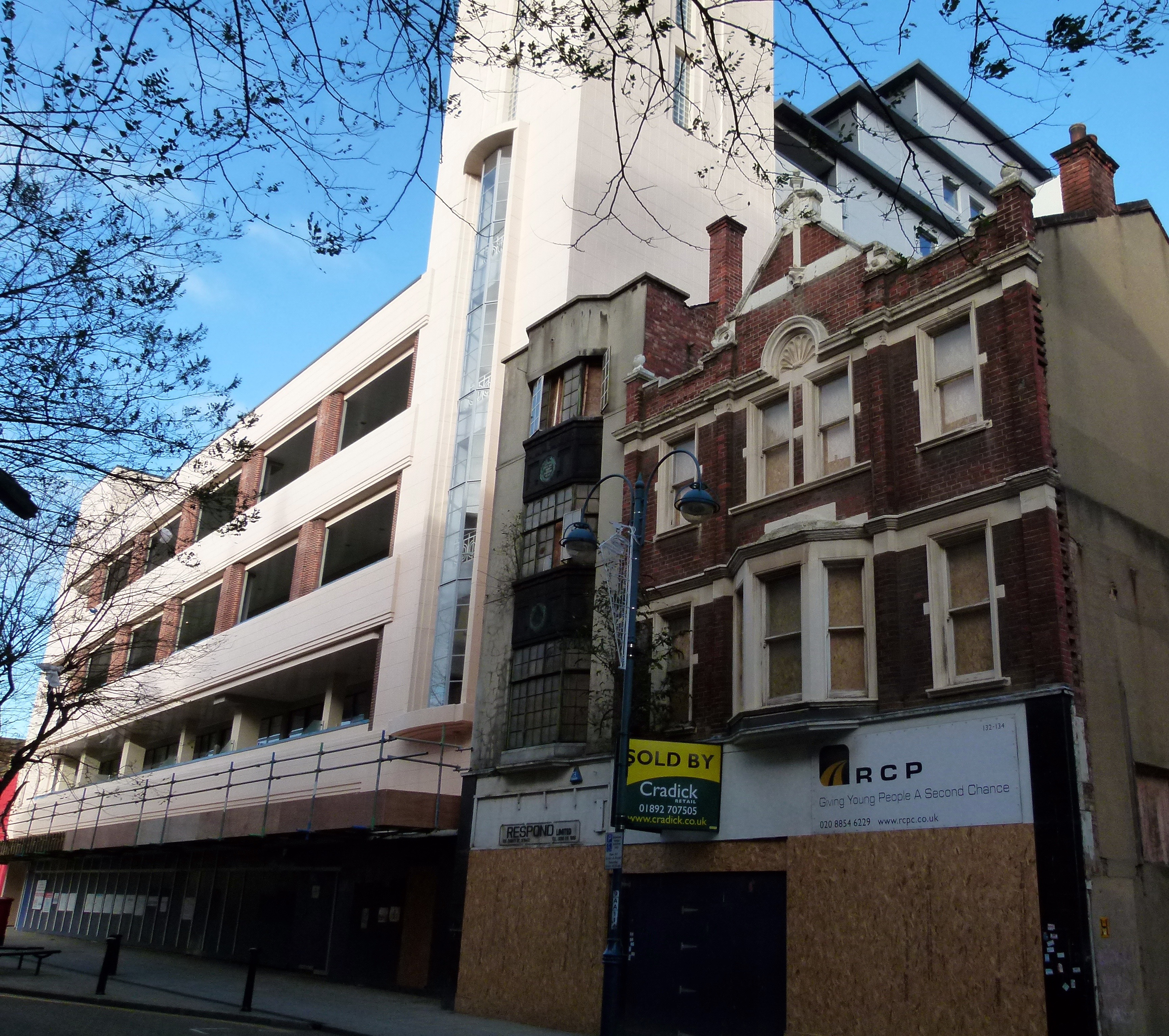 View of regeneration work in Powis Street in central Woolwich, South East London. To the left the former Co-op department store.